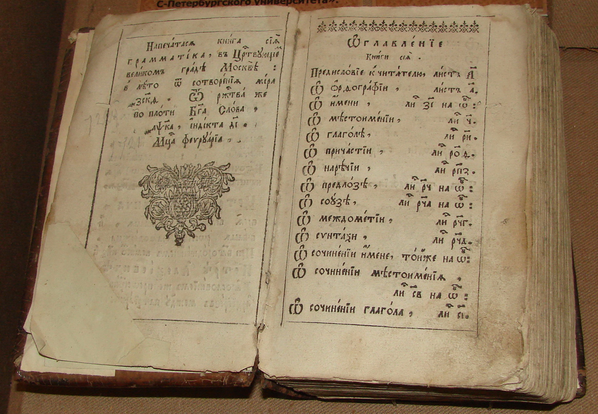 Russian Grammar, 1721 year, M.G. Smotritskii